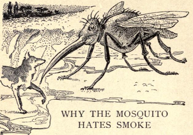 Illustration based on the Oregon folktale on why the mosquito hates smoke by J.W. Ferguson Kennedy